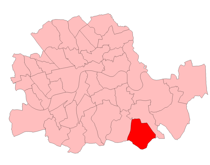 A map of Lewisham South constituency within the London County Council area, as it existed from 1950 to 1974.